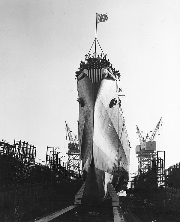 USS Flint (CL-97) launching, at the Bethlehem Steel Company shipyard, San Francisco, California, 25 January 1944.